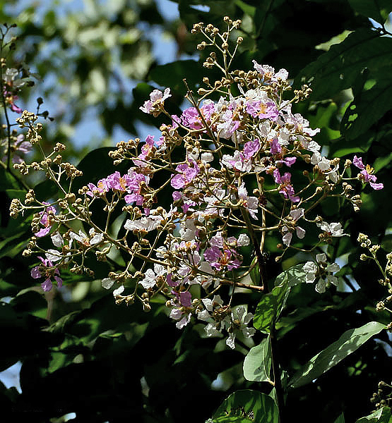 Thai Crape Myrtle Lagerstroemia floribunda in Kolkata, West Bengal, India.